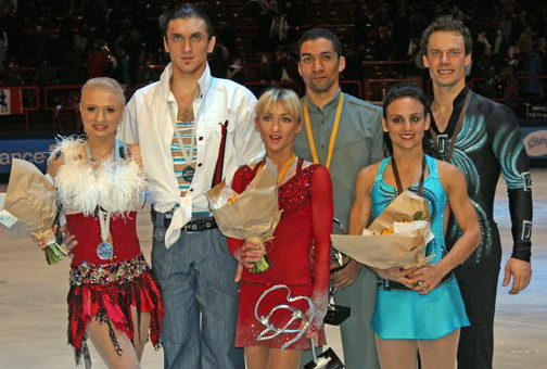 The pairs podium at the 2008 Trophée Eric Bompard. From left to right: Maria Mukhortova and Maxim Trankov (2nd); Aliona Savchenko and Robin Szolkowy (1st); Meagan Duhamel and Craig Buntin (3rd).